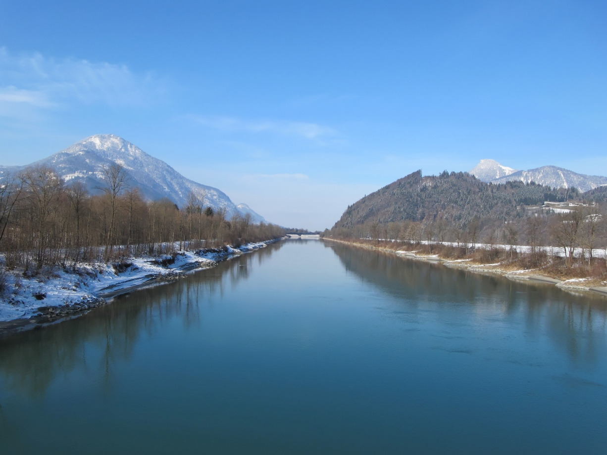 River Inn at Village "Oberaudorf", left Side Mountains "Wendelstein", right Side "Chiemgau Alps"